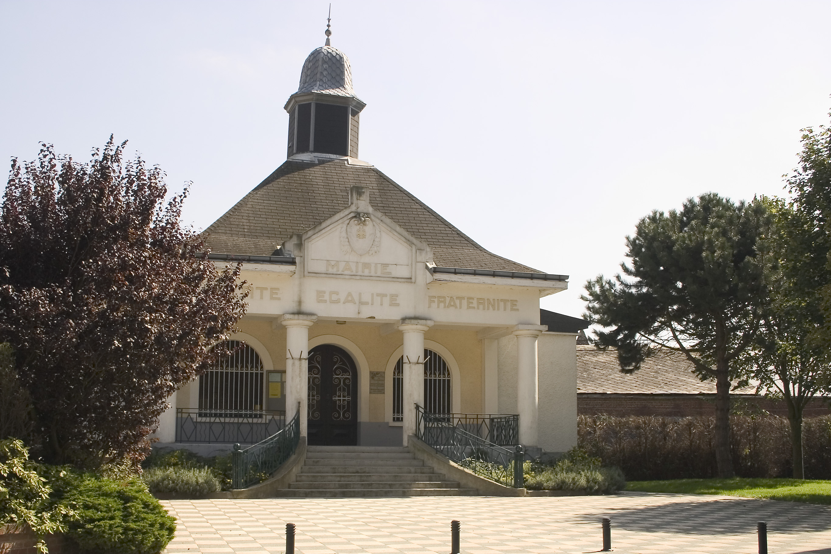 Town of Vis-en-Artois (France).